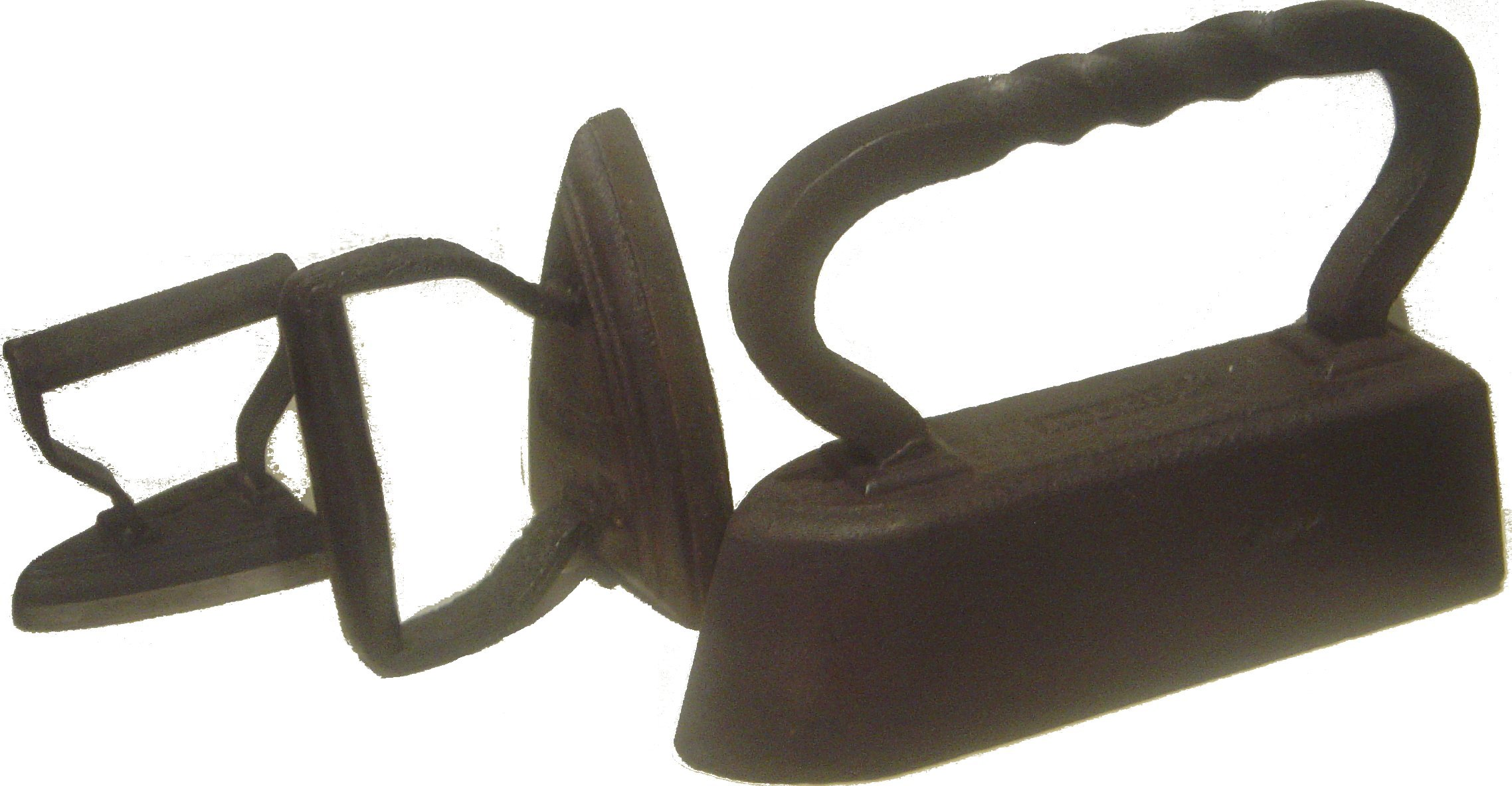 flat irons Photo taken at the National Museum of Scotland, Edinburgh